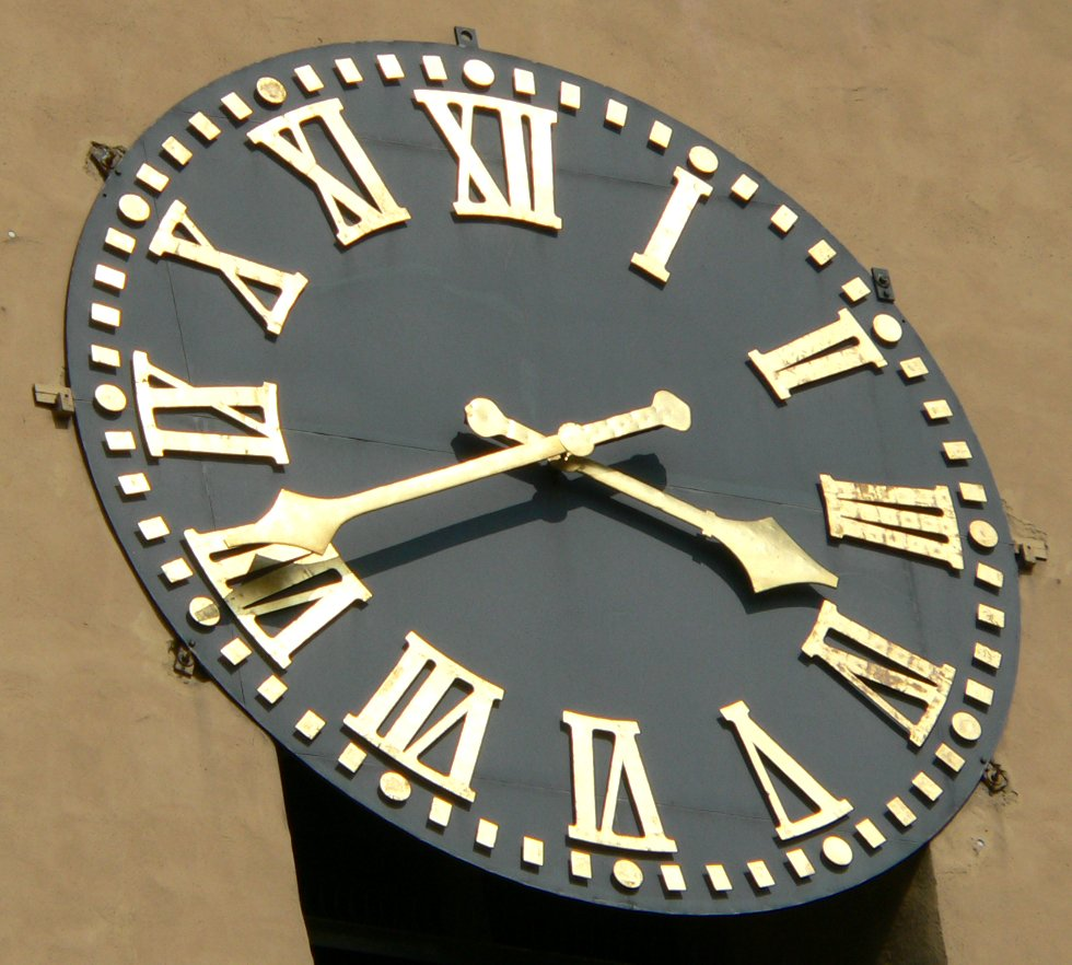 clock on tower of the church Katharinenkirche in Frankfurt/M, Germany; Uhr am Turm der Katharinenkirche in Frankfurt/M